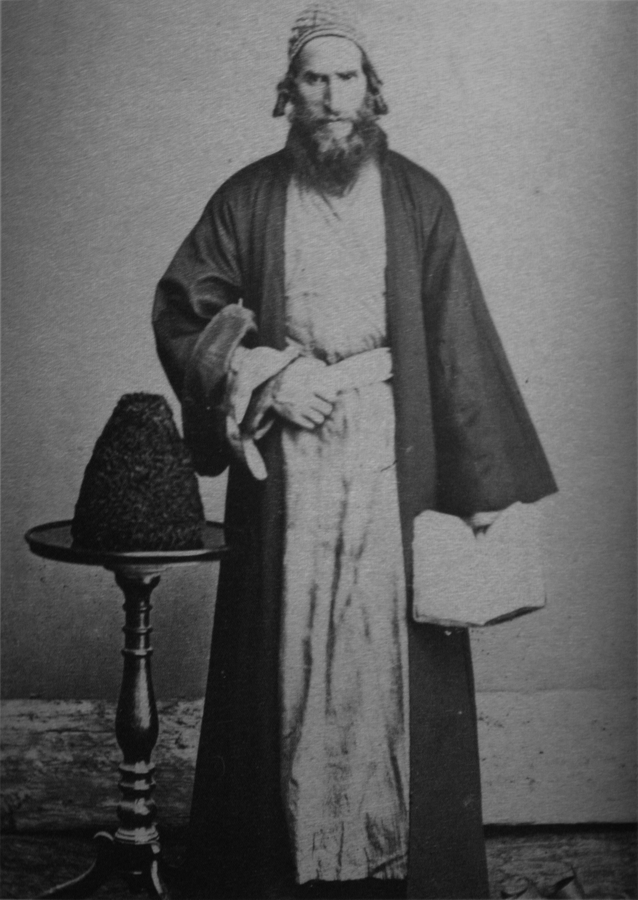 Rabbi, a Jew from Imereti